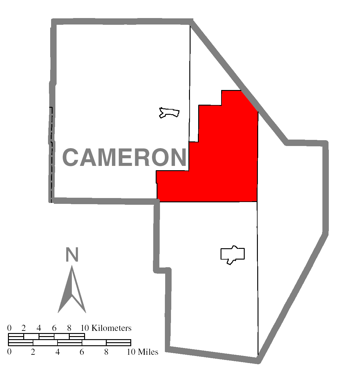 A map of Cameron County showing Lumber Township, Pennsylvania (alternate) highlighted on the map.